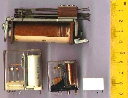 Comparison of some relays